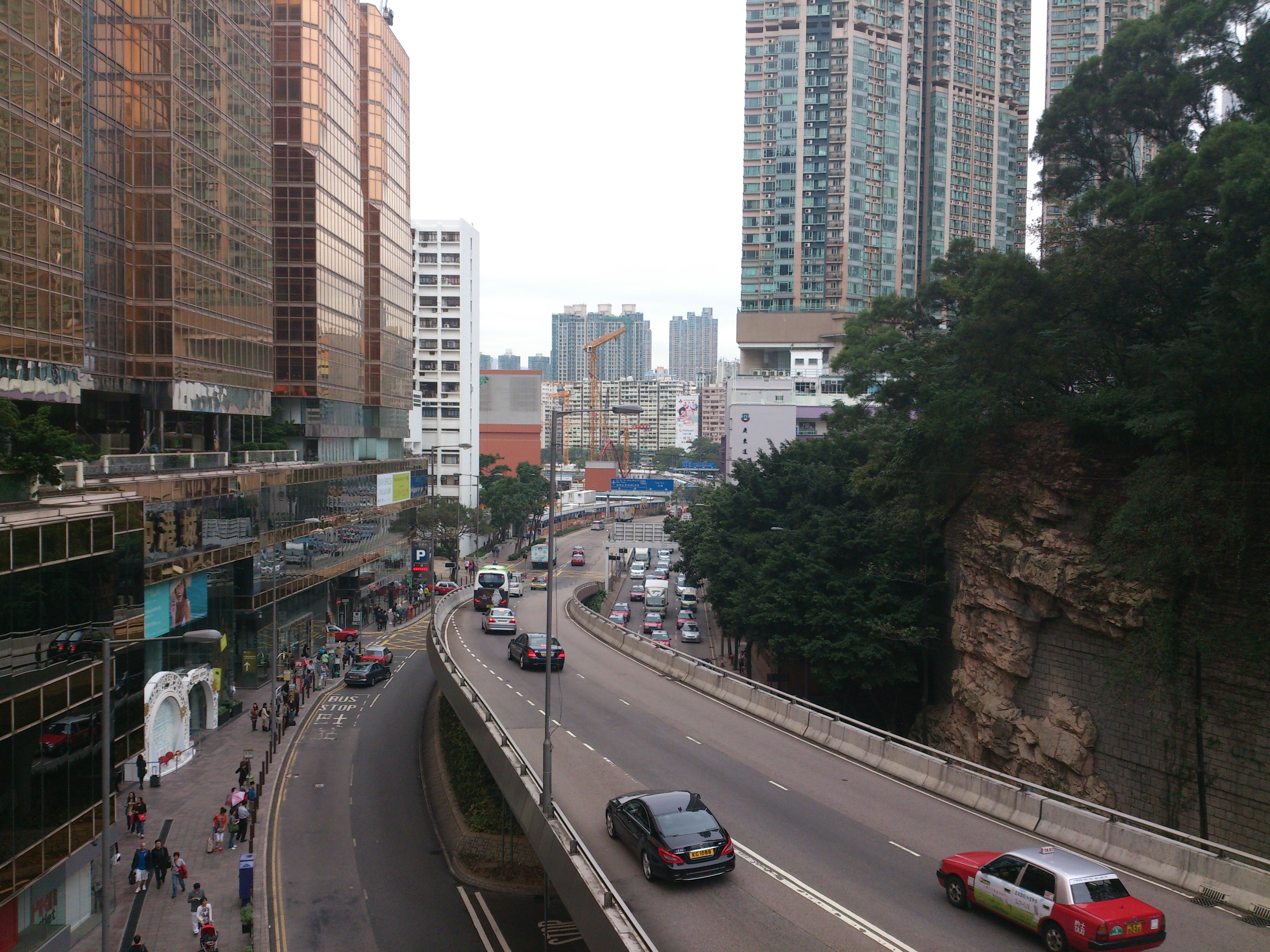 Kowloon Park Drive near China Hong Kong City